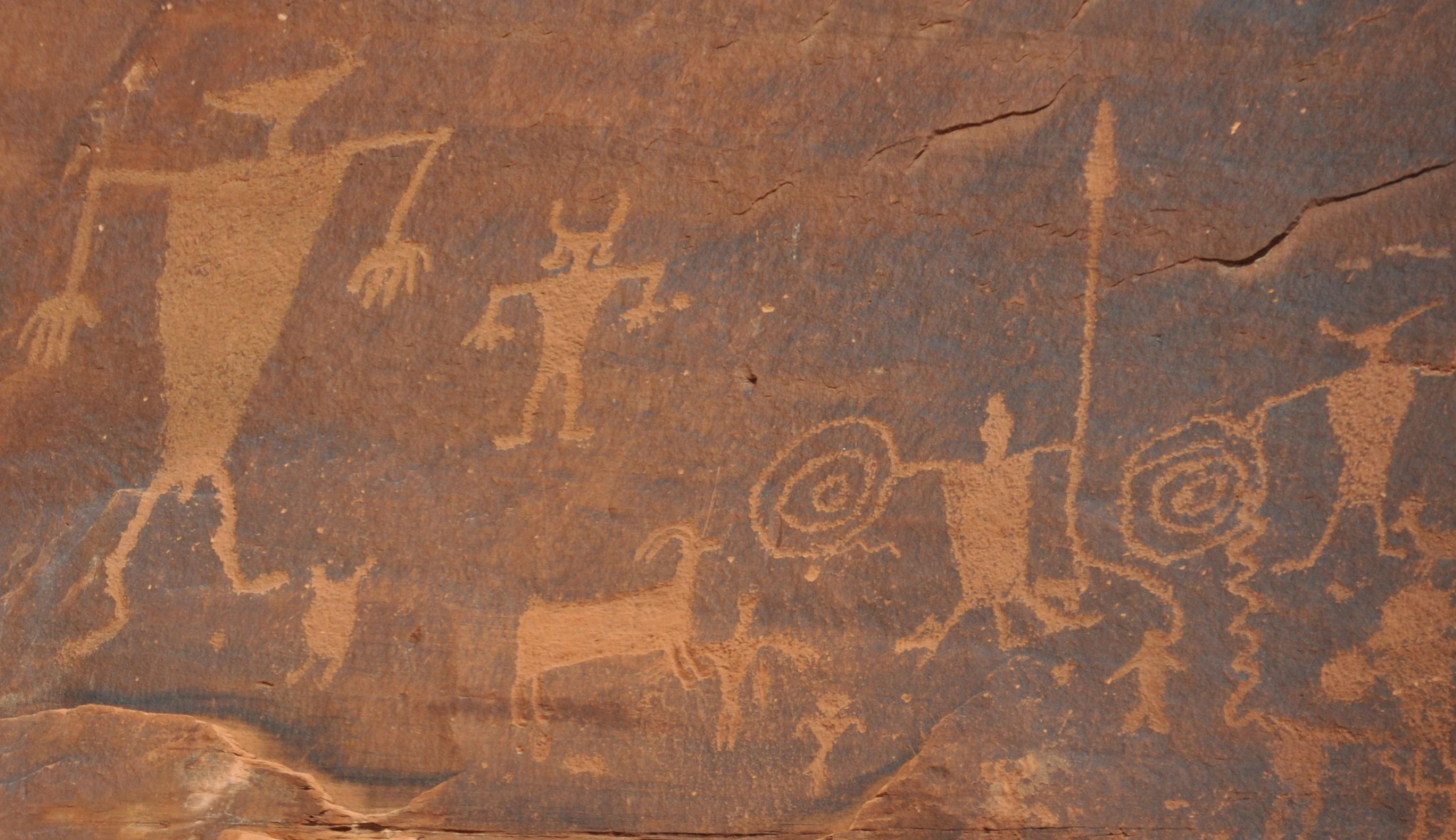 Anthropomorphs & animals - Archaic & Fremont Indian-carved petroglyphs (~6000 B.C. to ~1300 A.D.) on desert varnish-covered Navajo Sandstone cliff face (Lower Jurassic) in Utah. Locality: Potash Petroglyphs site, northern side of the Colorado river, west of Moab, eastern Utah, USA